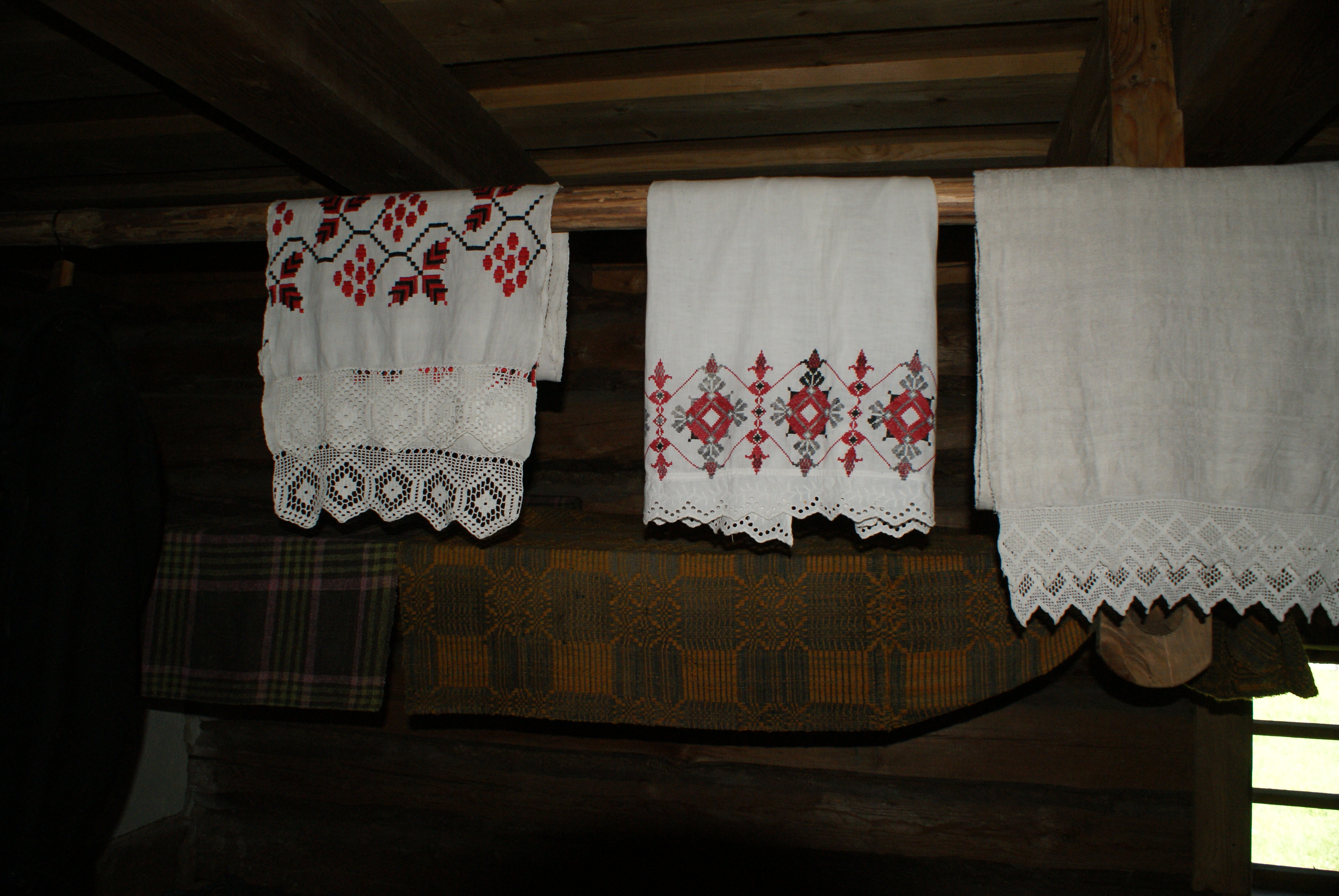 Polati in State museum of folk architecture and life, Belarus